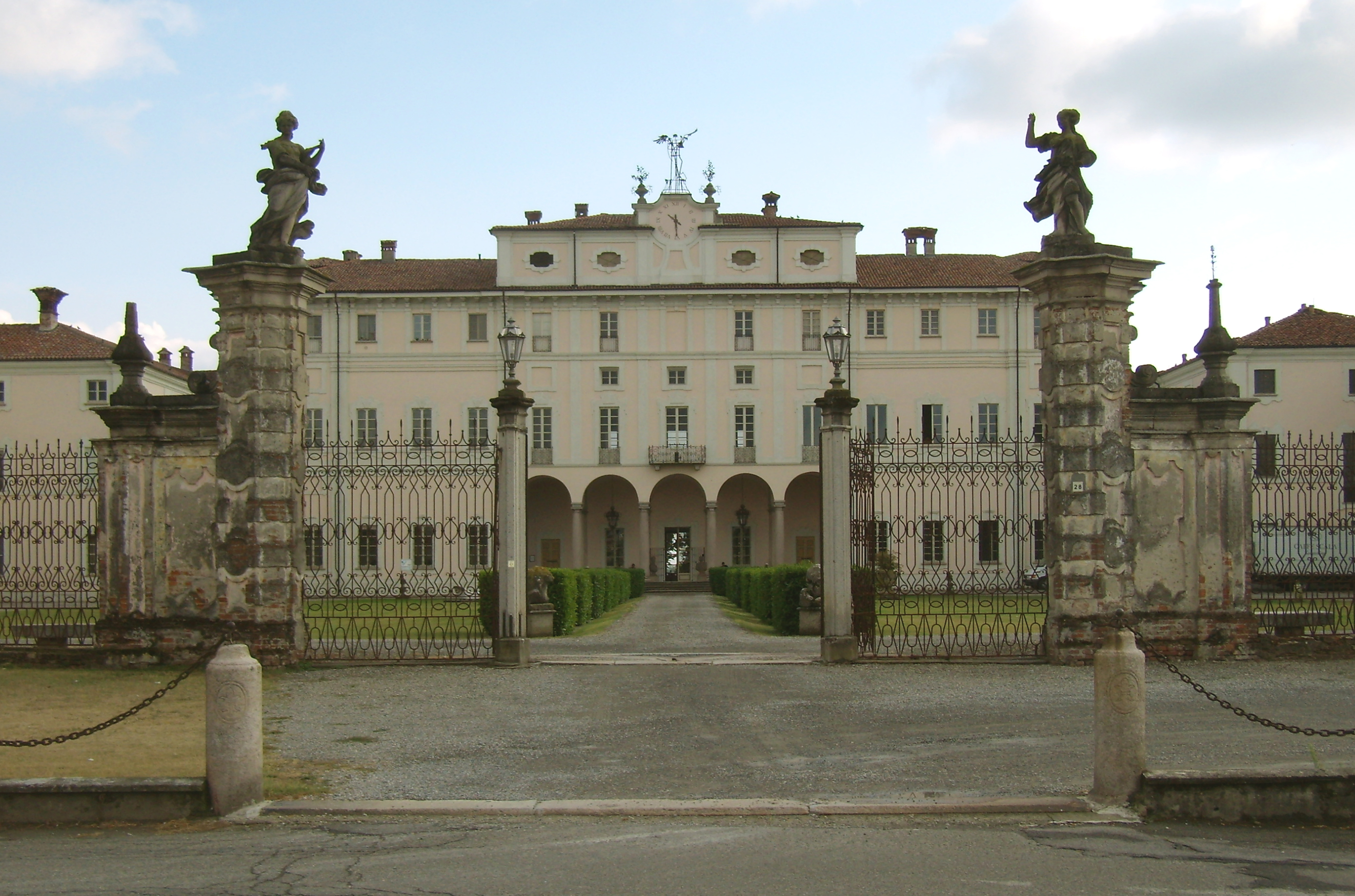 Villa Litta in Orio Litta (LO)